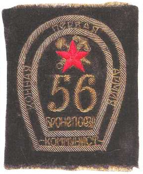 Soviet armoured train # 56 badge